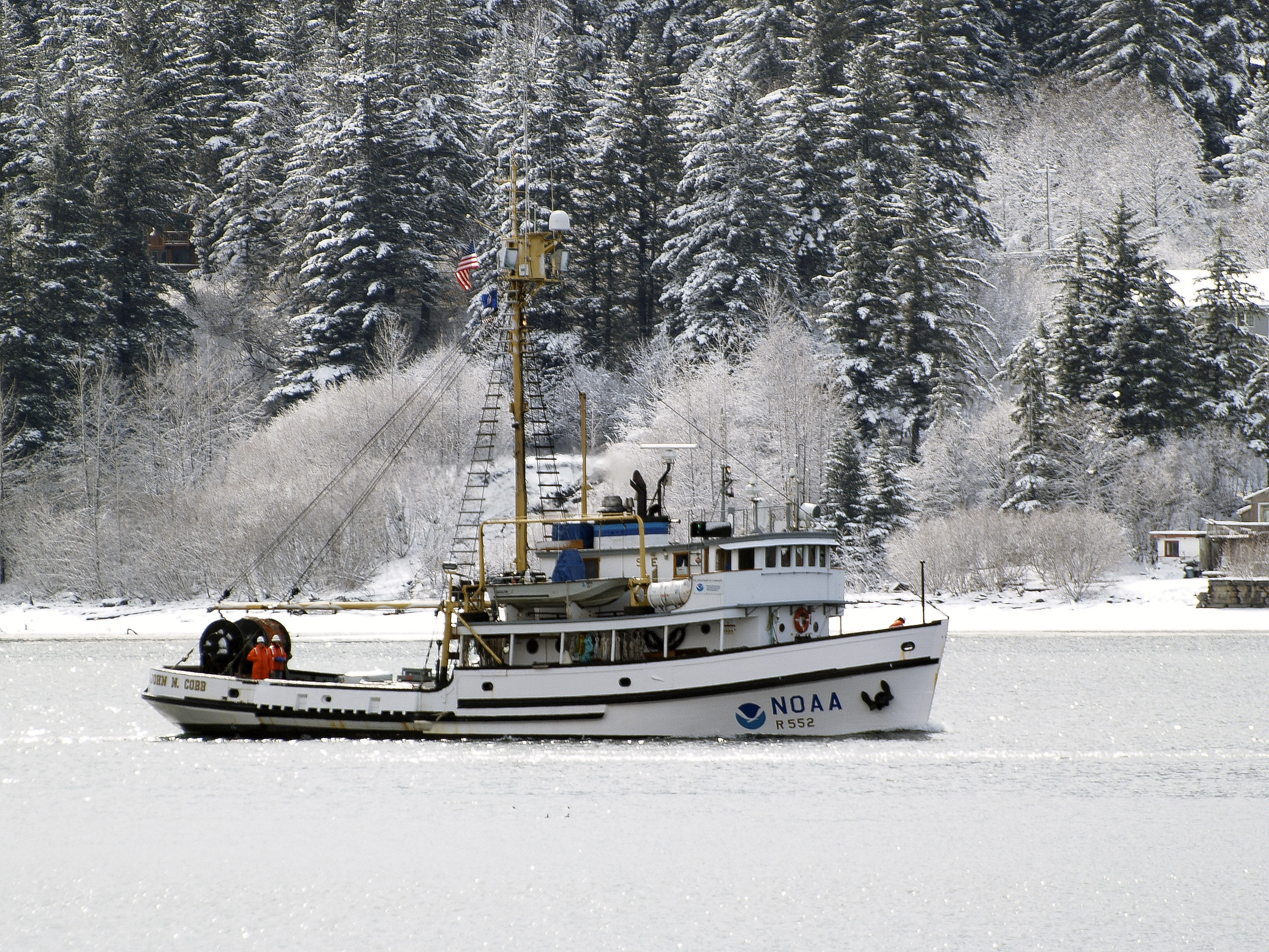 NOAA John N. Cobb Research Vessel cruises into the Port of Juneau, Alaska - Southeast Alaska.